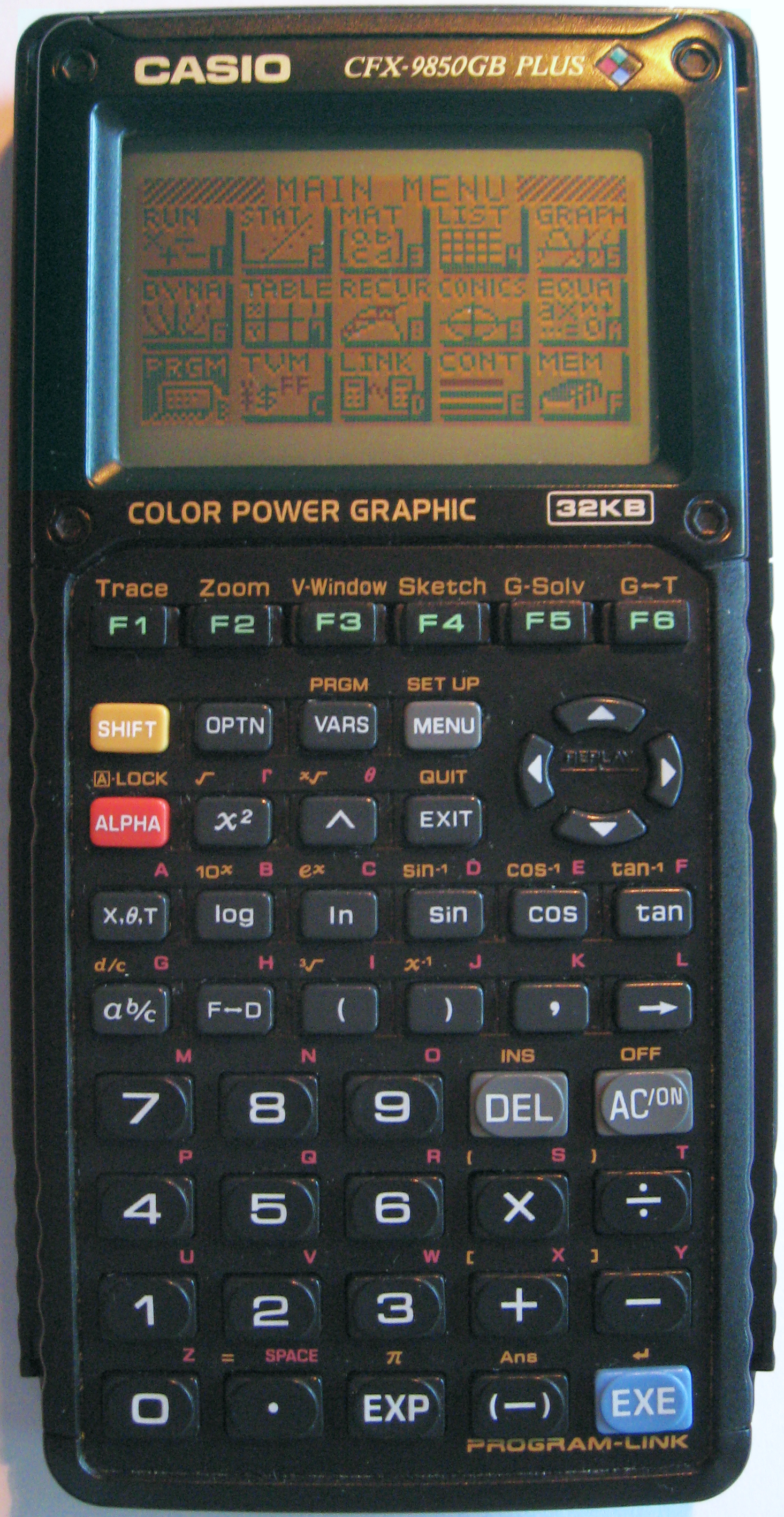 Casio CFX-9850GB+, the original black version